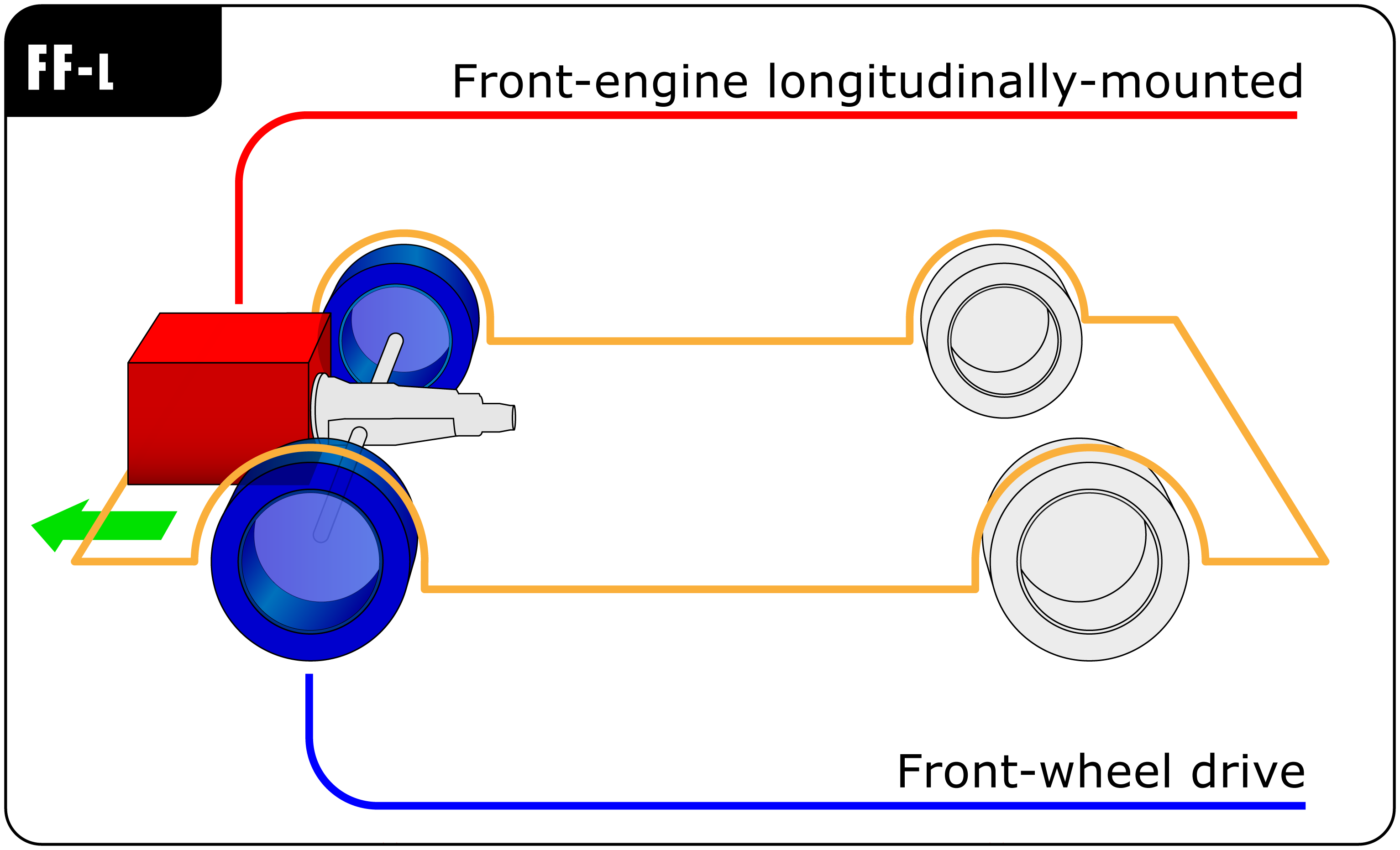 Vehicle engine and drive wheel placement diagrams (German versions coming soon)